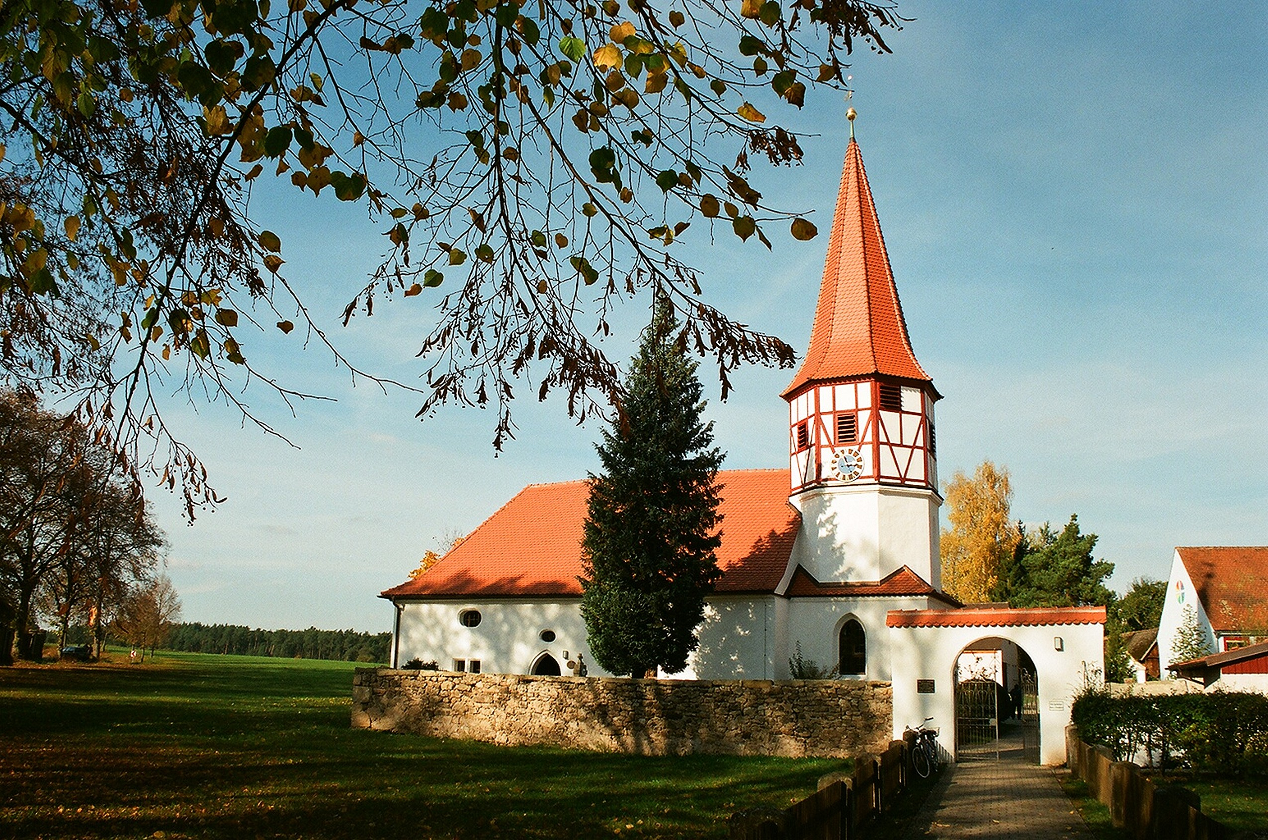 Dorfkirche Dürrenmungenau This is a photograph of an architectural monument.